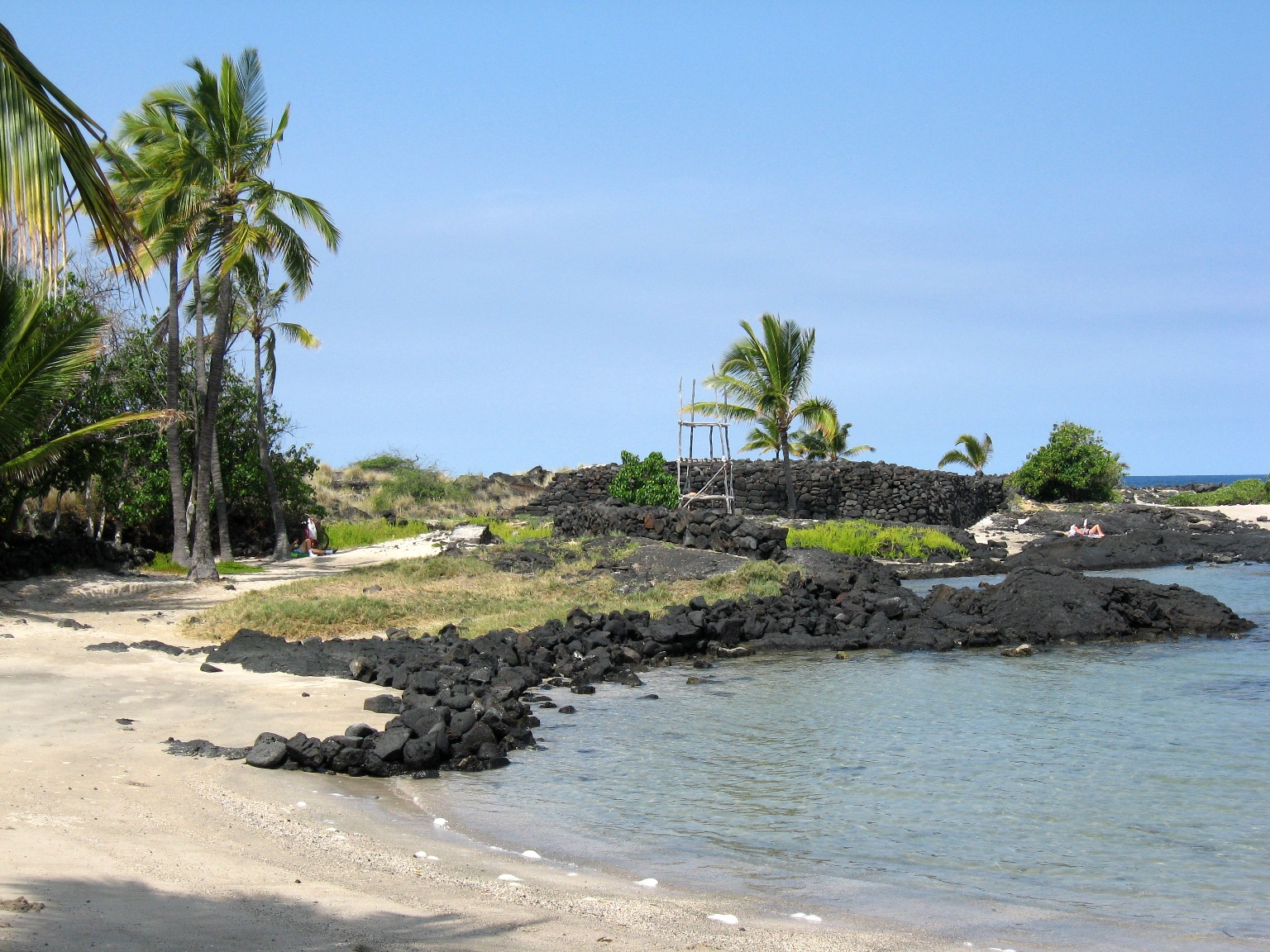 A Heiau, an ancient Hawaiian temple, has been reconstructed at Honokohau National Historic Landmark on the Big island of Hawaiʻi. Within Kaloko-Honokōhau National Historical Park, Kona District.